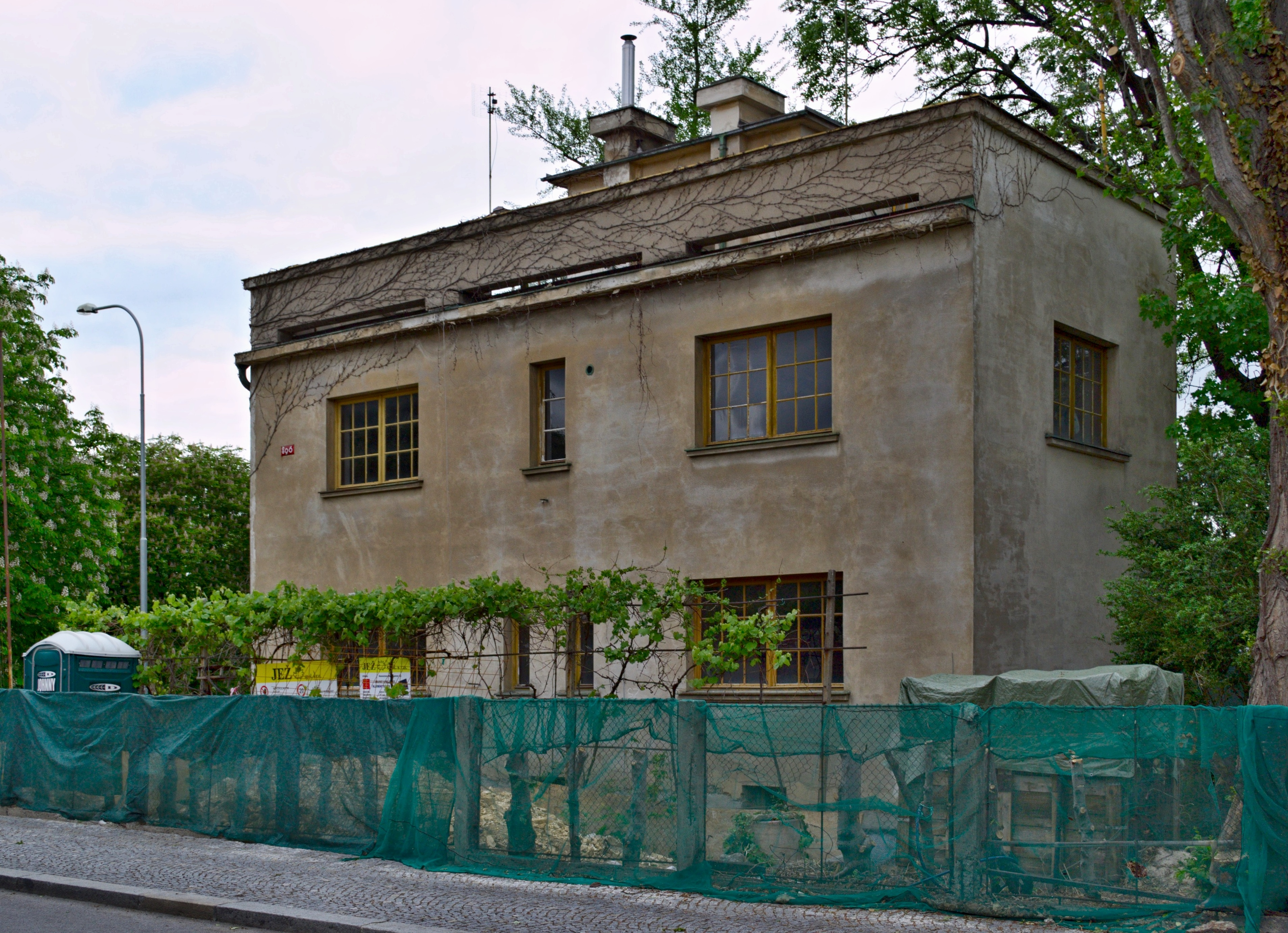 Vila of the architect Otto Rothmayer, U Páté baterie 896/50, Prague, Czech Republic.